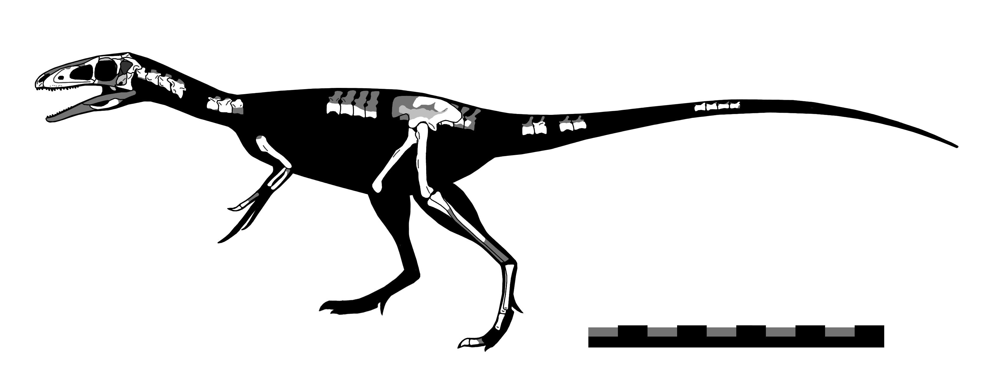 Skeletal diagram of Zuolong salleei, based on related basal coelurosaurs. Scale bar = 1 meter. Light colours indicate known material (white is known external bones, light grey is either palate, braincase, or sacrum). Dark colours indicate unknown material (partial bones or unknown braincase)